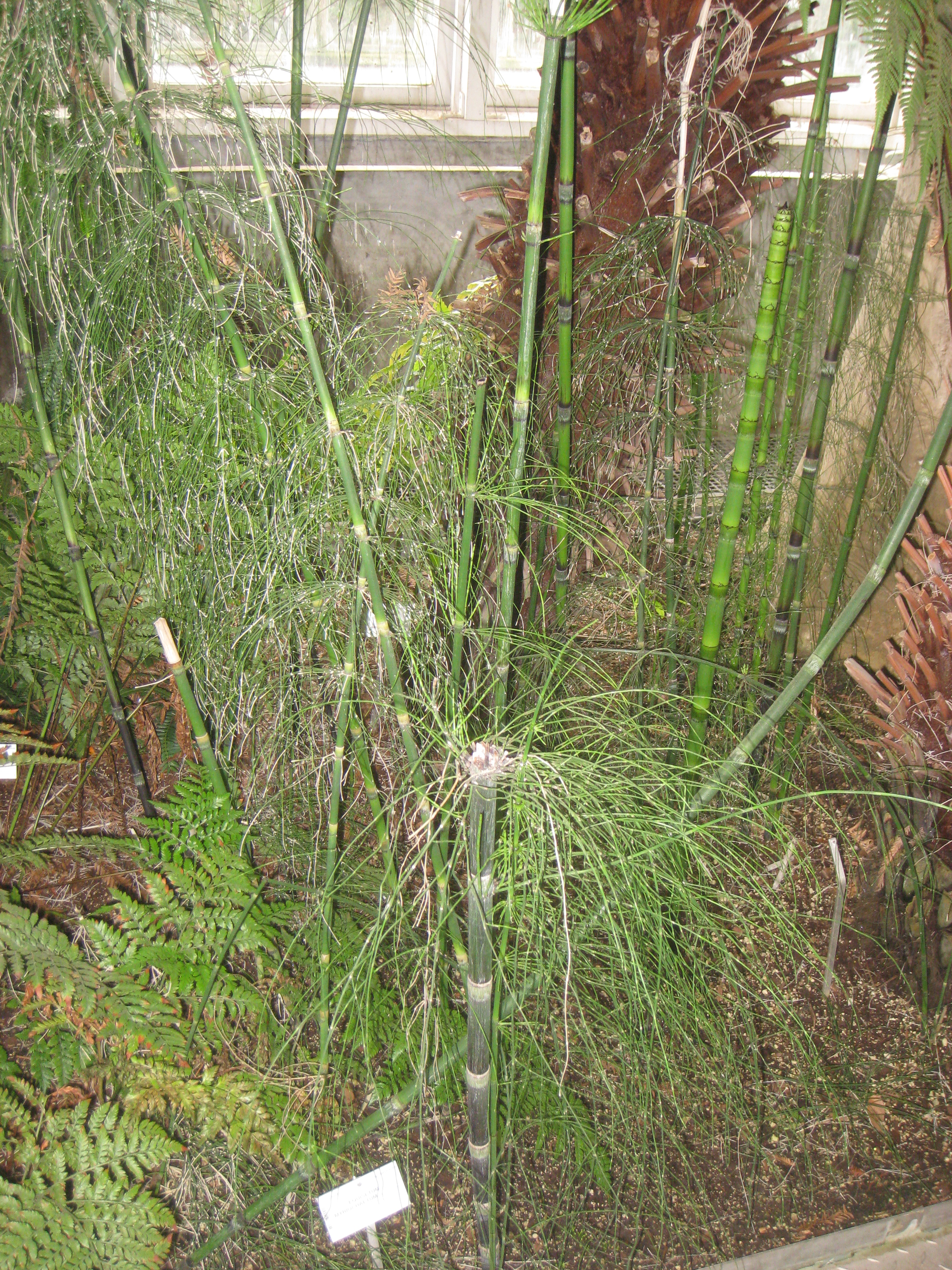 Equisetum myriochaetum specimen in the National Botanic Garden of Belgium, Meise, just north of Brussels, Belgium.